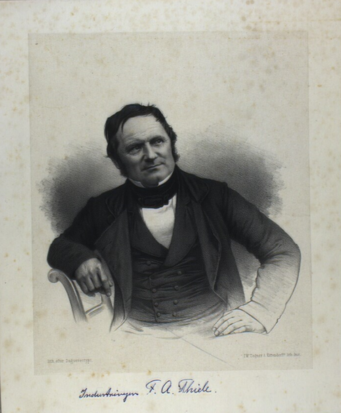 Anton Thiele (1802-1865), Danish instrument maker